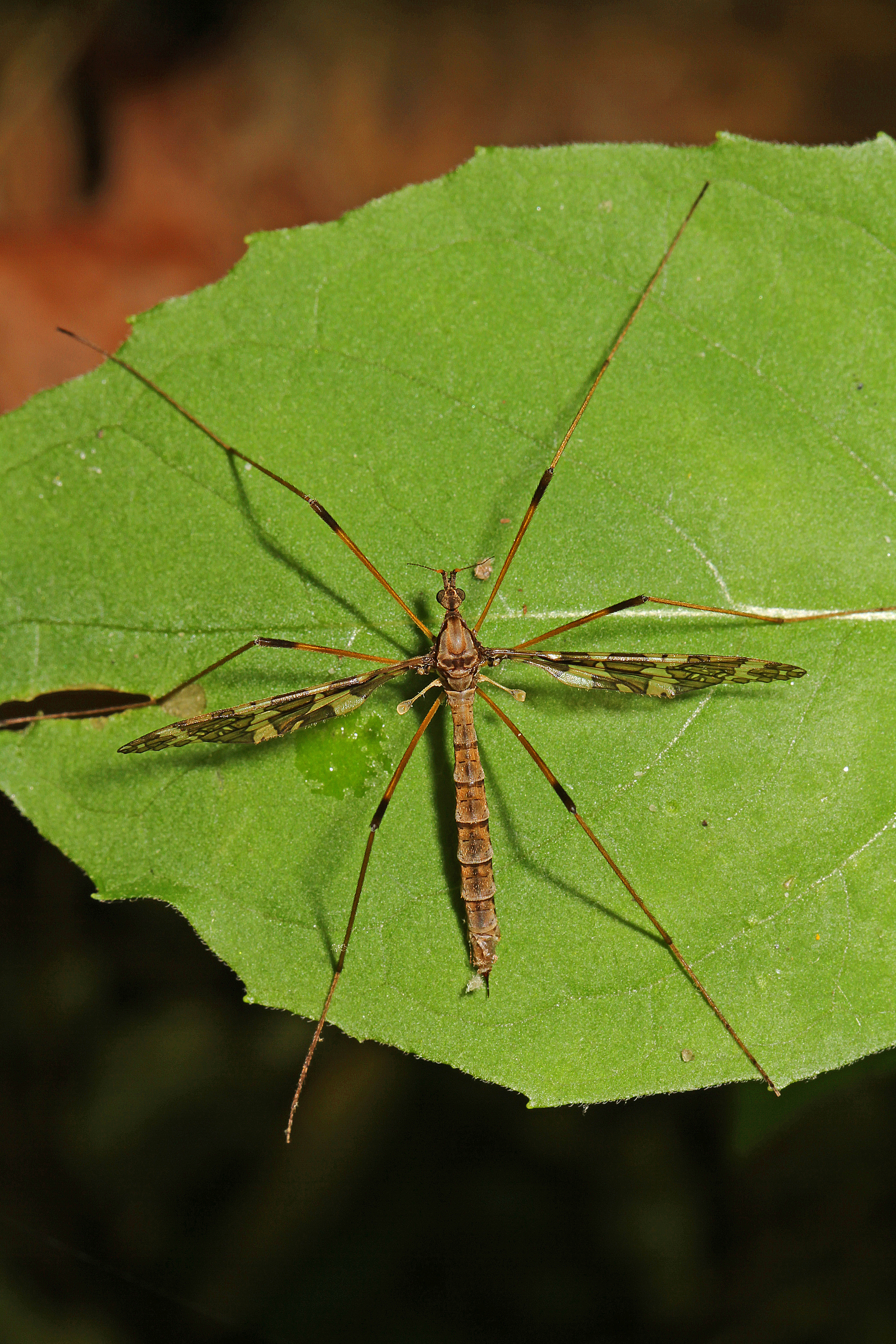 Crane Fly - Epiphragma fasciapenne, Leesylvania State Park, Woodbridge, Virginia.